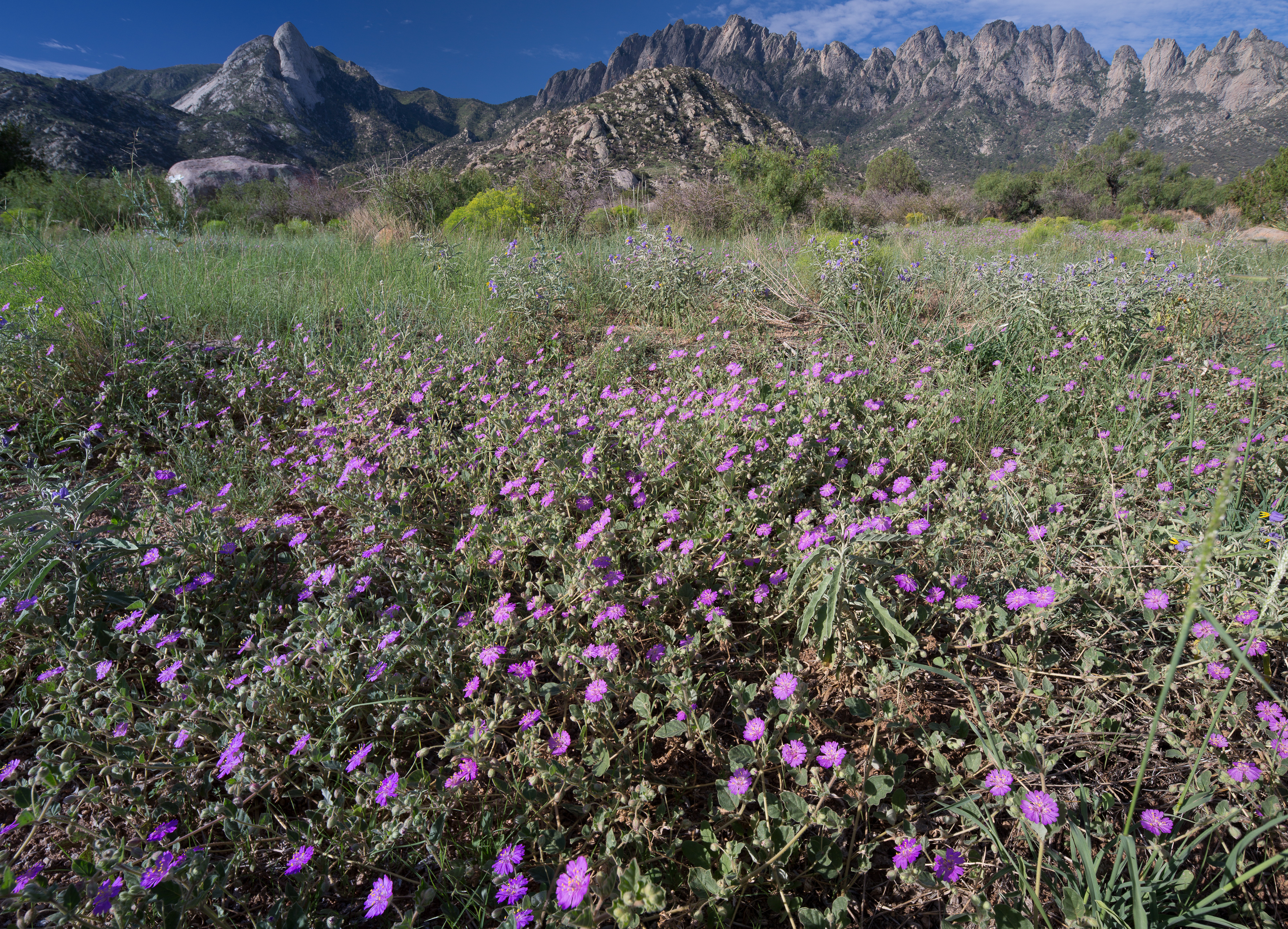 The Organ Mountains WSA is located in south-central New Mexico on the eastern edge of Las Cruces. The Organ Mountains range from 4,600 to just over 9,000 feet, and are so named because of the steep, needle-like spires that resemble the pipes of an organ. Alligator juniper, gray oak, mountain mahogany and sotol are the dominant plant species here, but in the upper elevations stands of ponderosa pine may be found. Seasonal springs and streams occur in canyon bottoms, with a few perennial springs that support riparian habitats. Wildlife includes desert mule deer, mountain lion, a variety of song birds, and a race of the Colorado chipmunk. The WSA includes the Baylor Pass National Recreation Trail. Learn more: Photo: Bob Wick, BLM California